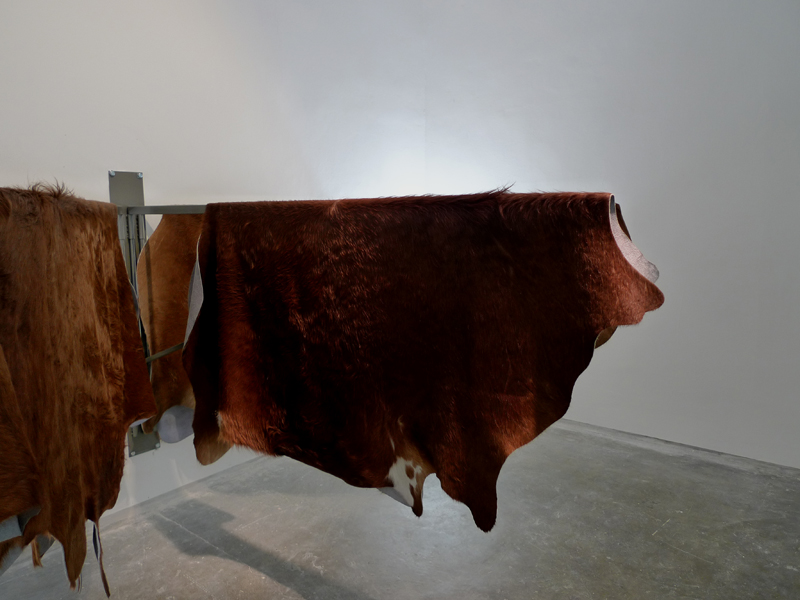 pastva